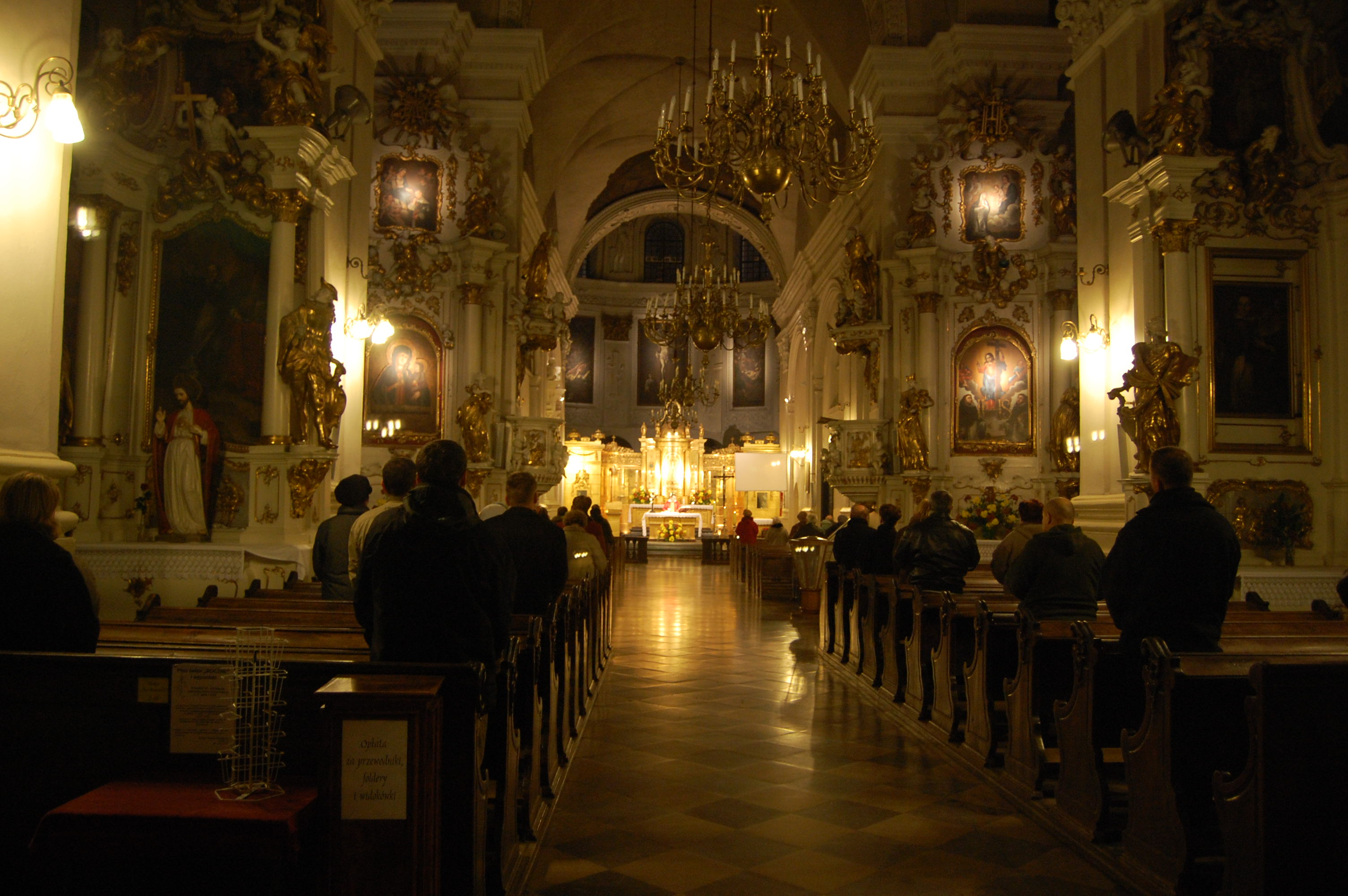 Basilica of the Dominican Friars in Lublin